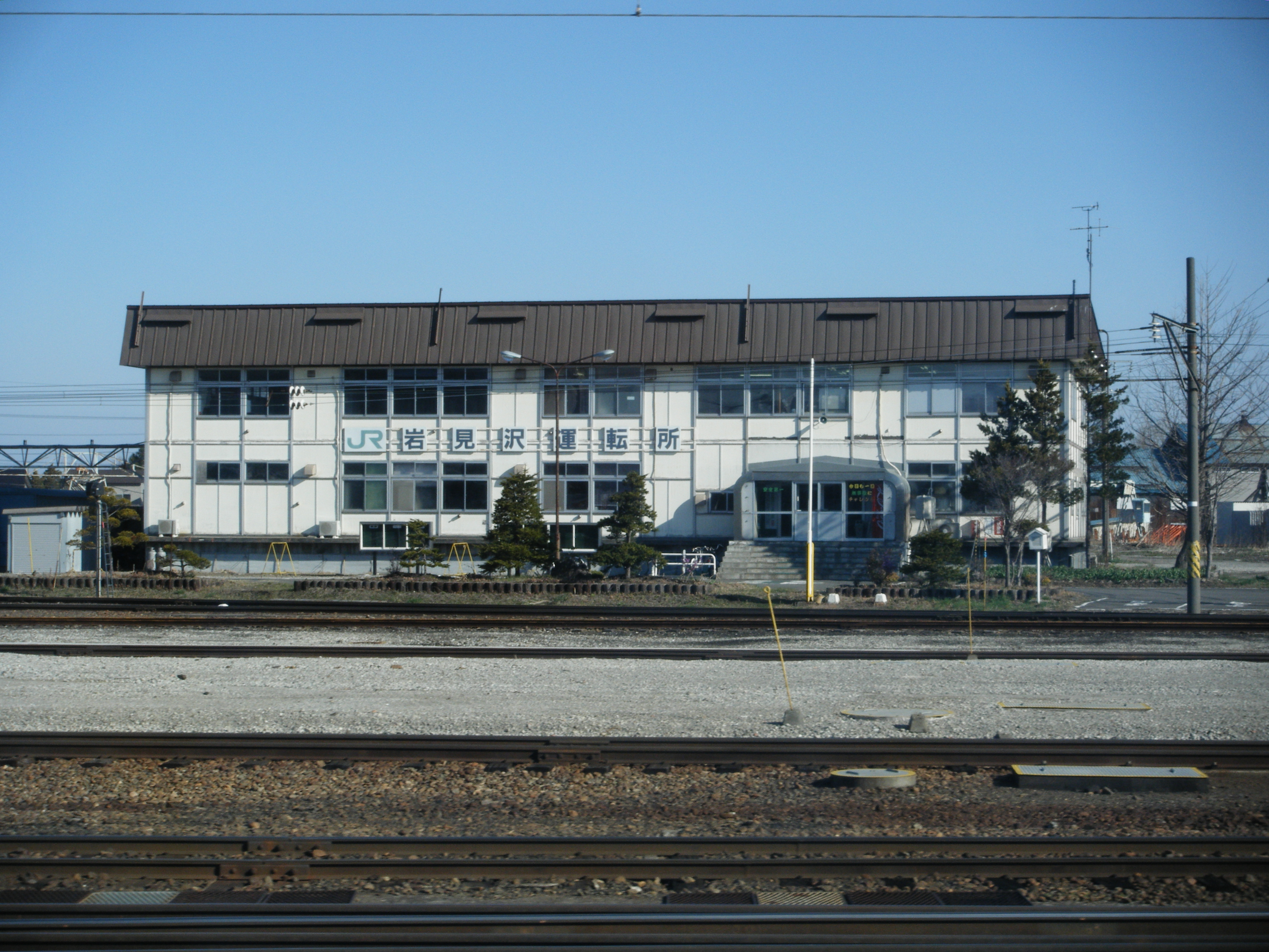 JR Hokkaido Iwamizawa Untenjo (Iwamizawa Rail Yard), in Iwamizawa City, Hokkaido